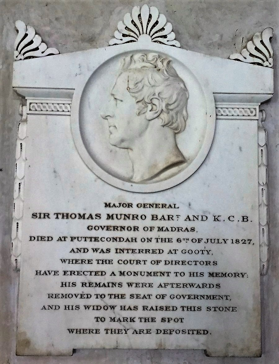 Memorial Sir. Thomas Munro, St. Mary's Cathedral, Madras